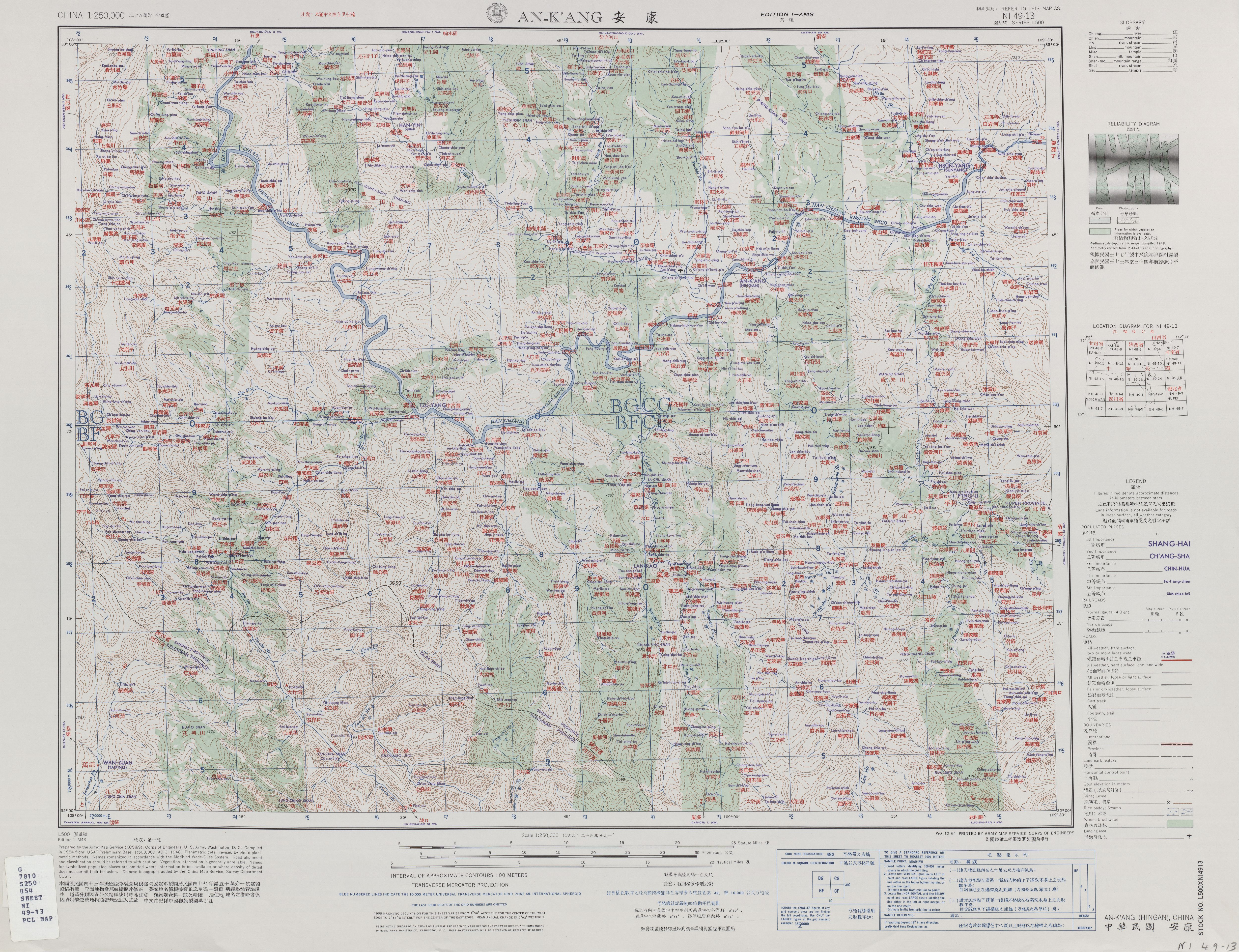 China AMS Topographic Maps